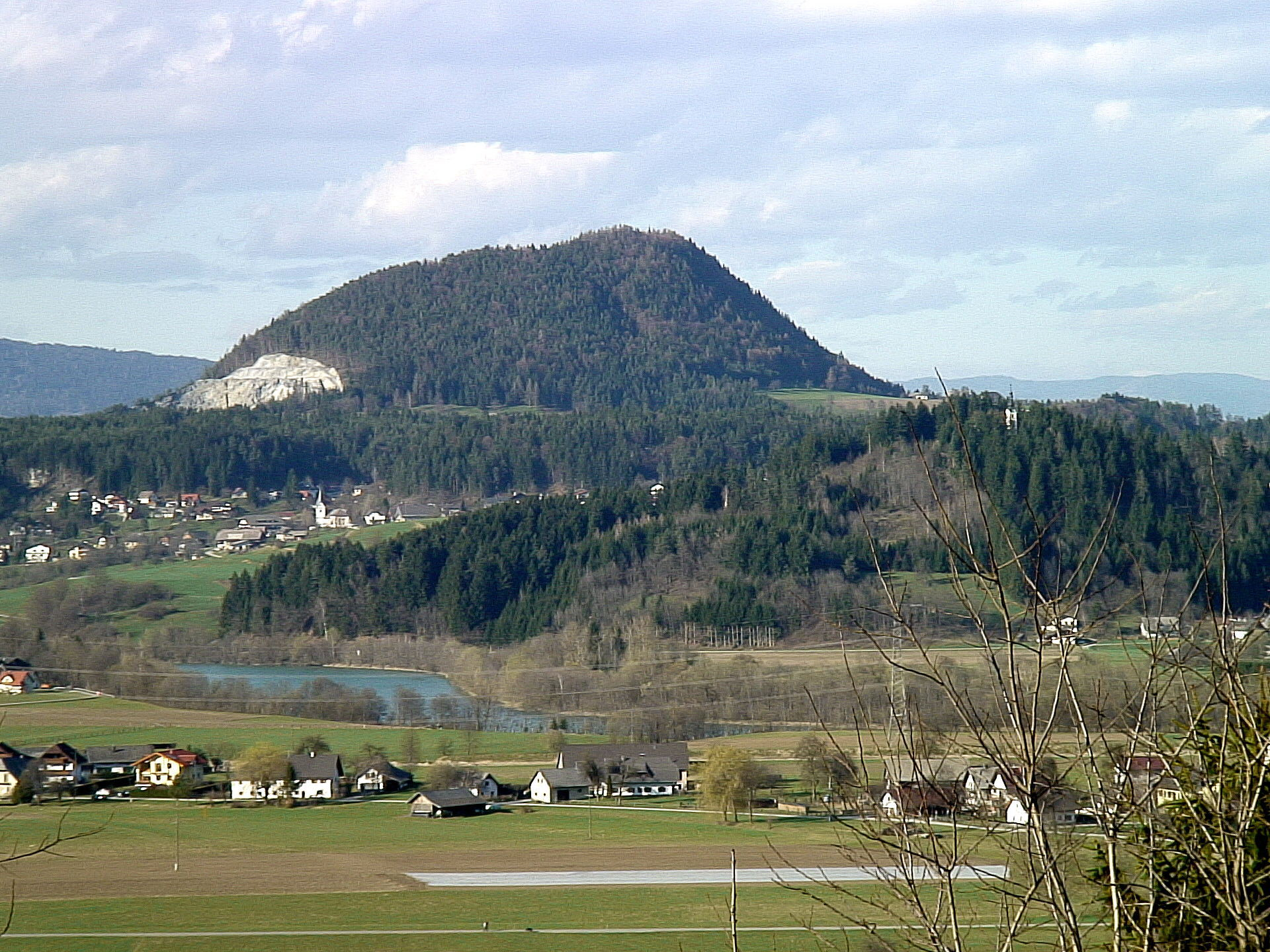 (View from Sankt Jakob im Rosental at the) Kathreinkogel, community Schiefling, district Klagenfurt-Land, Carinthia, Austria